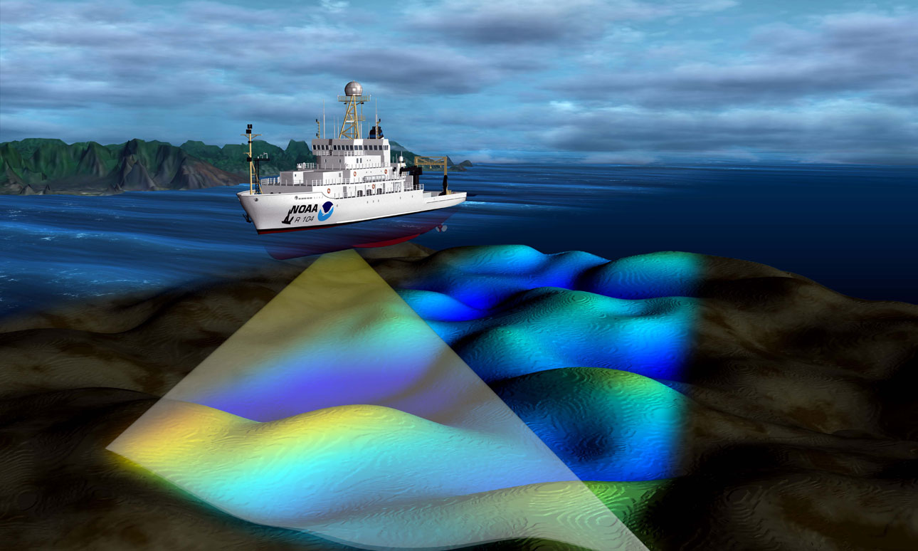 Multibeam sonar systems emit sound waves from directly beneath a ship's hull to produce fan-shaped coverage of the sea floor. These systems measure and record the time elapsed between the emission of the signal from the transducers to the sea floor or object and back again. Multibeam sonars produce a 'swath' of soundings (i.e., depths) to ensure full coverage of an area. Hydrographic data collected from these sonar systems are used to update nautical charts.